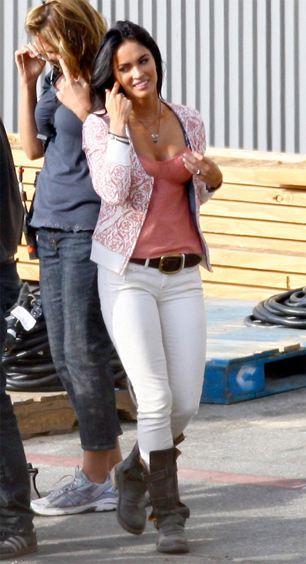 Megan Fox on the Transformers 2.